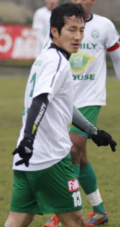 Hideaki Takeda on trial with Warta Poznan